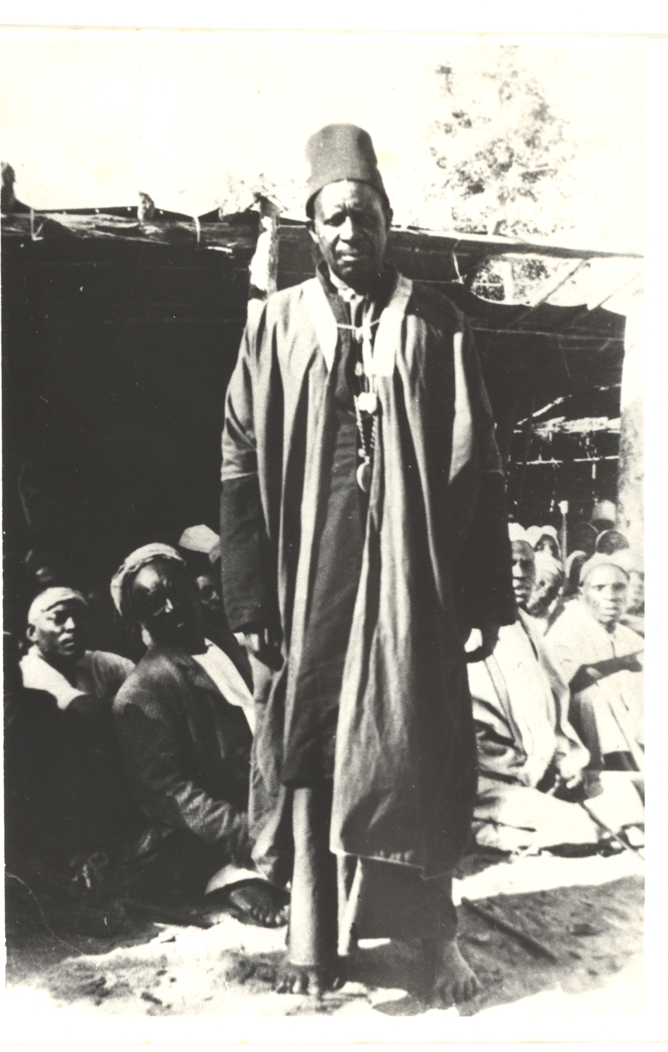 Chief Mponda of Mangochi district, southern Malawi. 1931 to 1941